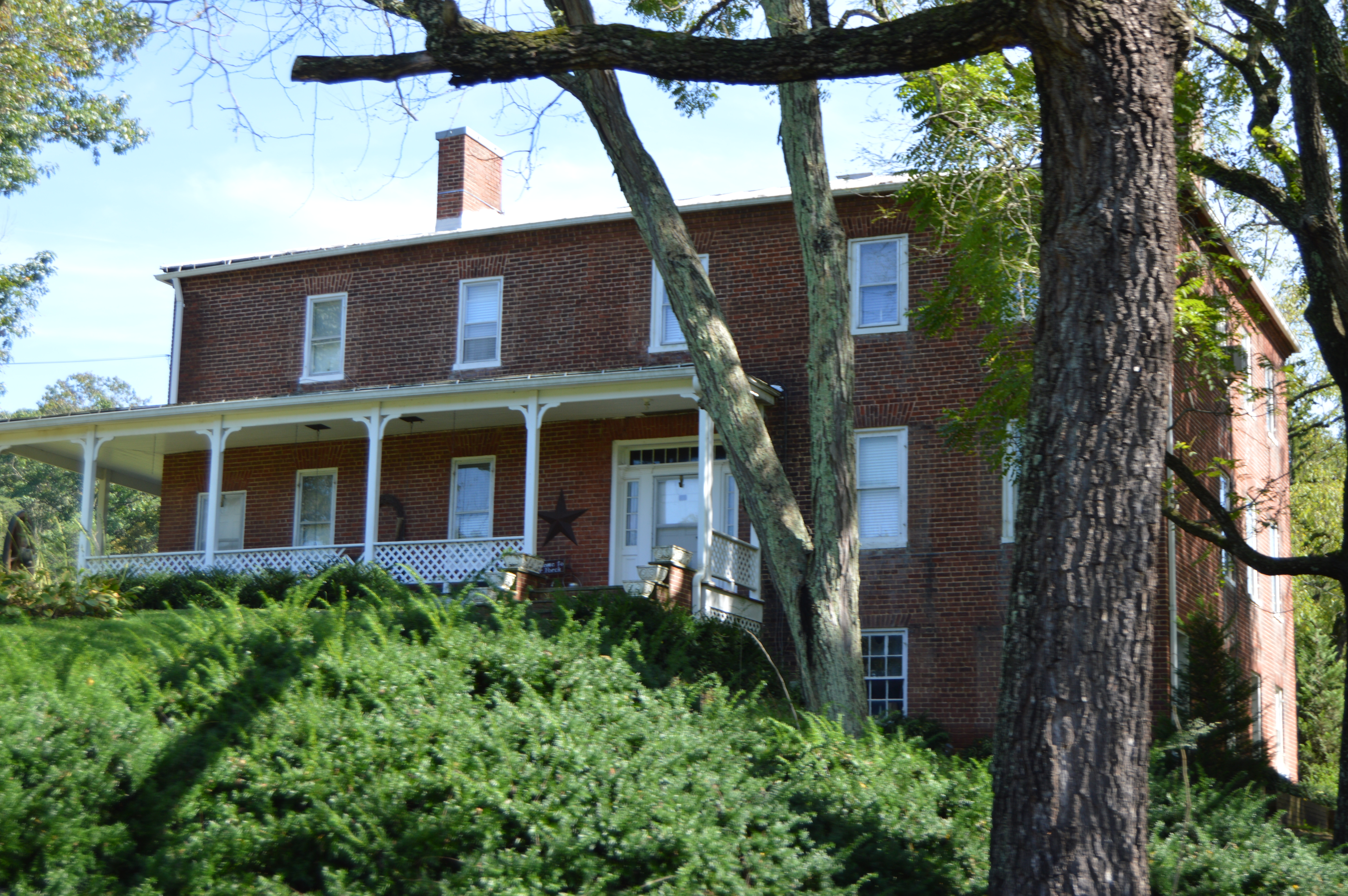 Front of Hickory Grove, located off South Branch River Road near Romney in Hampshire County, West Virginia, United States. Built in 1849, it is listed on the National Register of Historic Places.